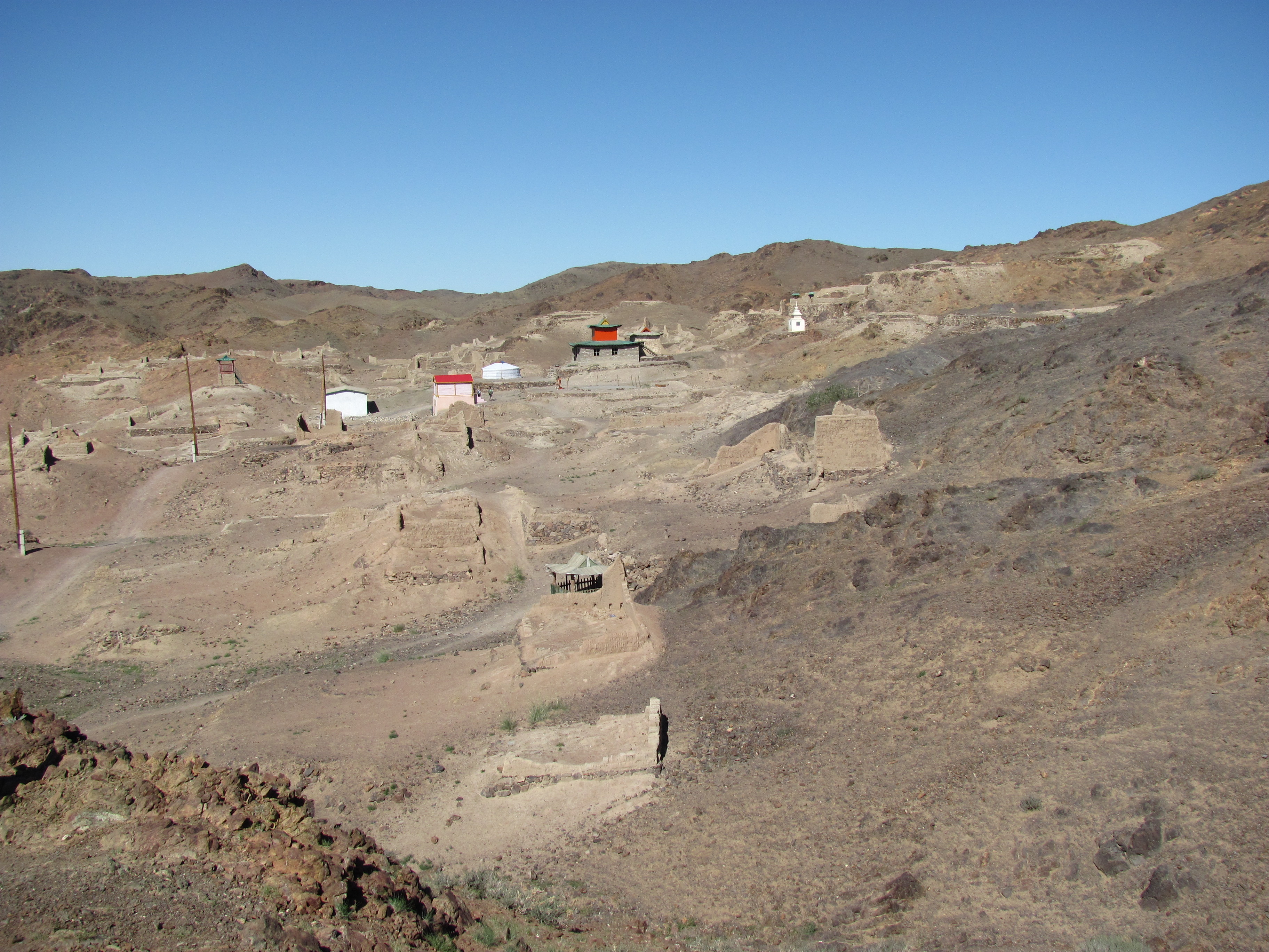 Monastery Ongiin Khiid, Mongolia.